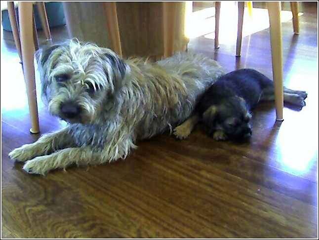 Unstripped Border Terrier with puppy. This is the "natural" form of the Border Terrier coat. The coats of Border Terriers must be stripped. Here an unstripped adult Border Terrier (left) is shown with a puppy.